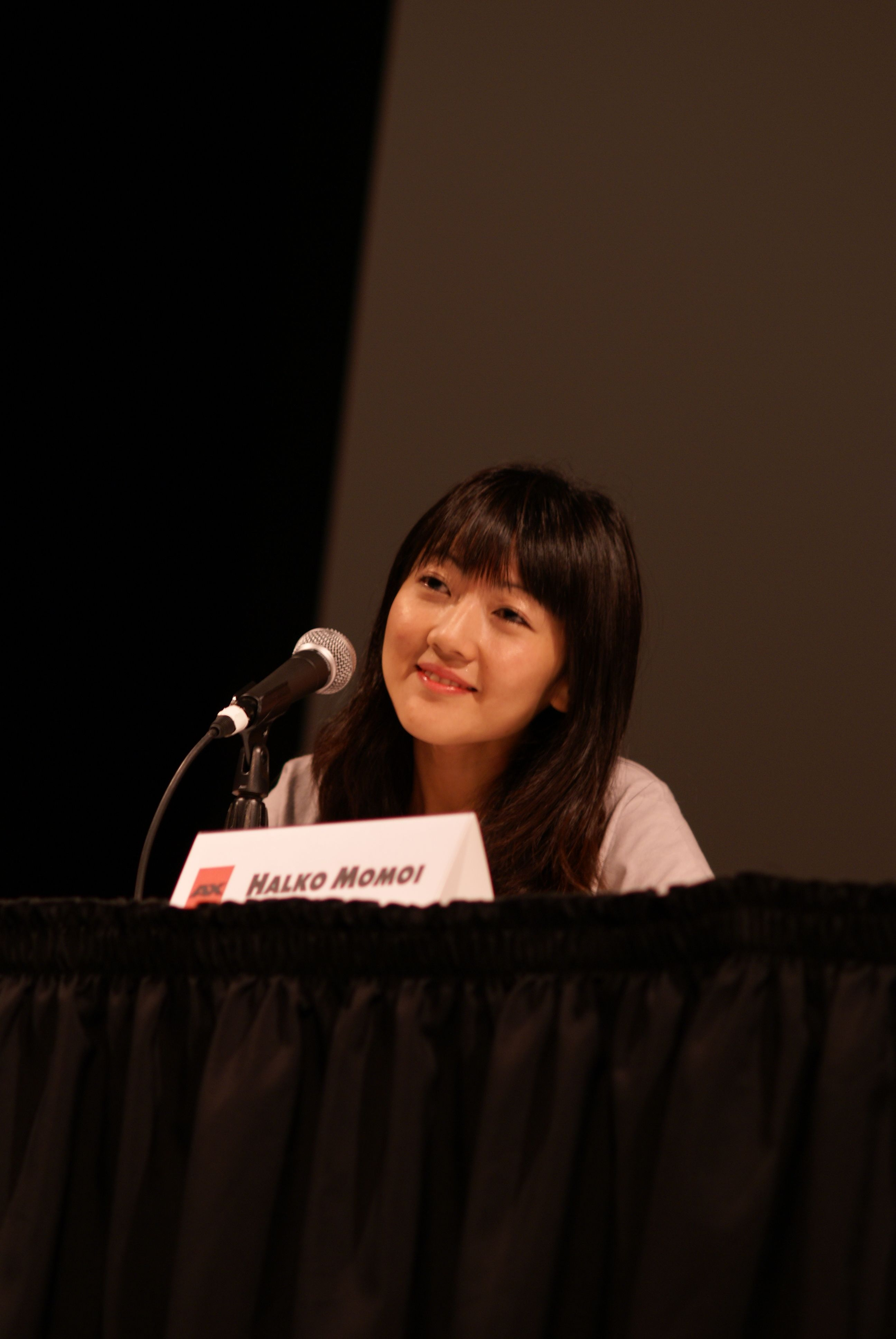 Haruko Momoi (Halko Momoi) is a Japanese voice actress and singer/songwriter. At Anime Expo 2007.